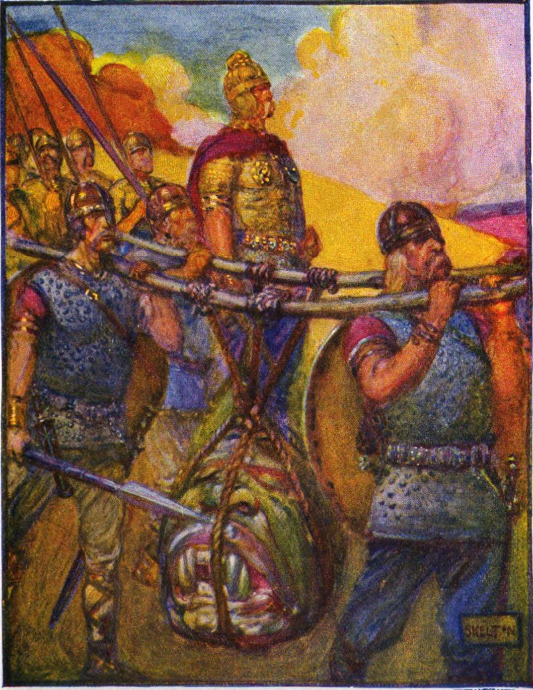 "They carried with them the hideous head of Grendel." An illustration of 4 men carrying the head of Grendel. Marshall, Henrietta Elizabeth (1908) Stories of Beowulf, T.C. & E.C. Jack, p. 63 Stories of Beowulf-88.jpg